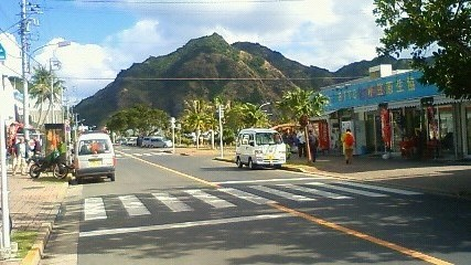 Oomura Area. Oomura Area, Chichijima.